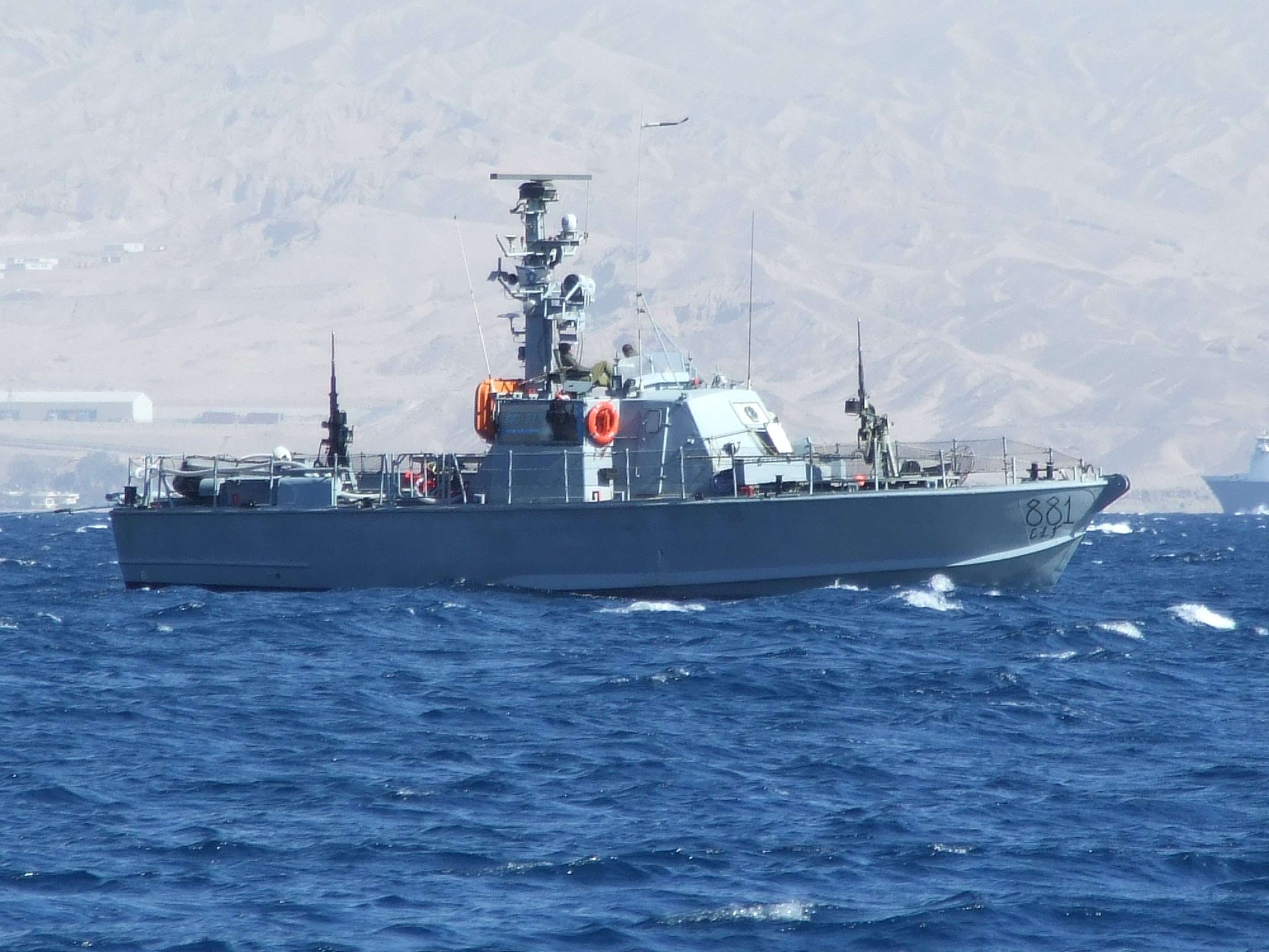 Israeli Dabur class patrol boat (number 881) in bay of Eilat.